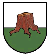 Municipal coat of arms of Kařez village, Rokycany District, Czech Republic.